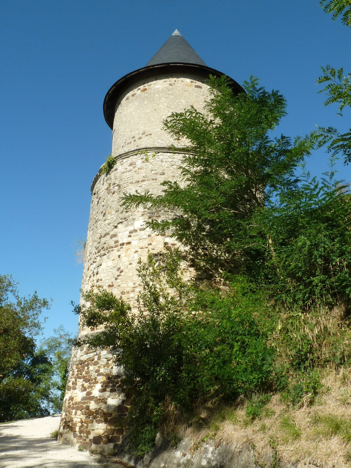 castle of Montendre, Charente-Maritime, SW France